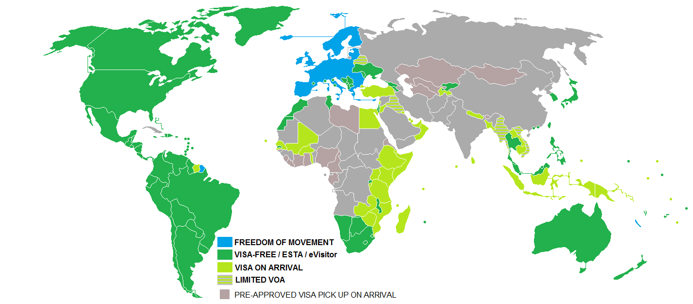 Countries and territories with visa-free entries or visas on arrival for holders of regular British passports.